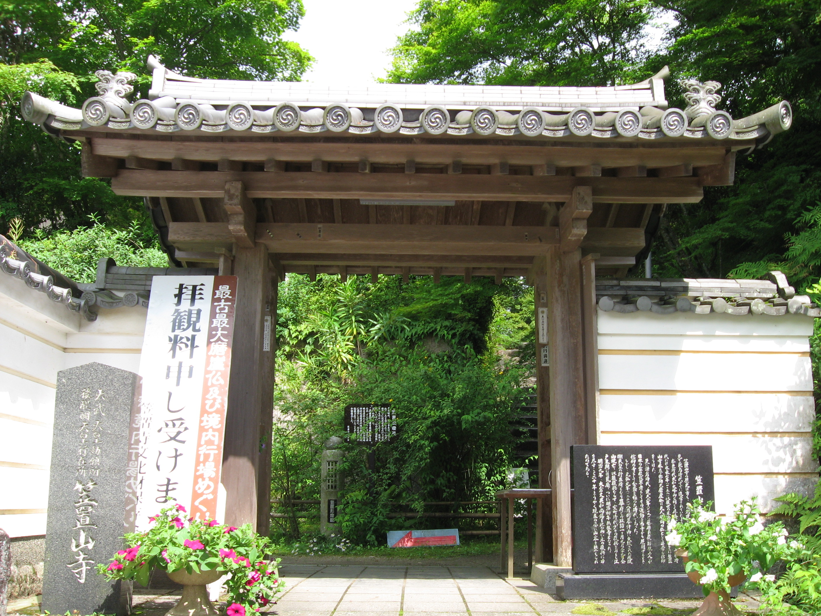 Sanmon of Kasagidera